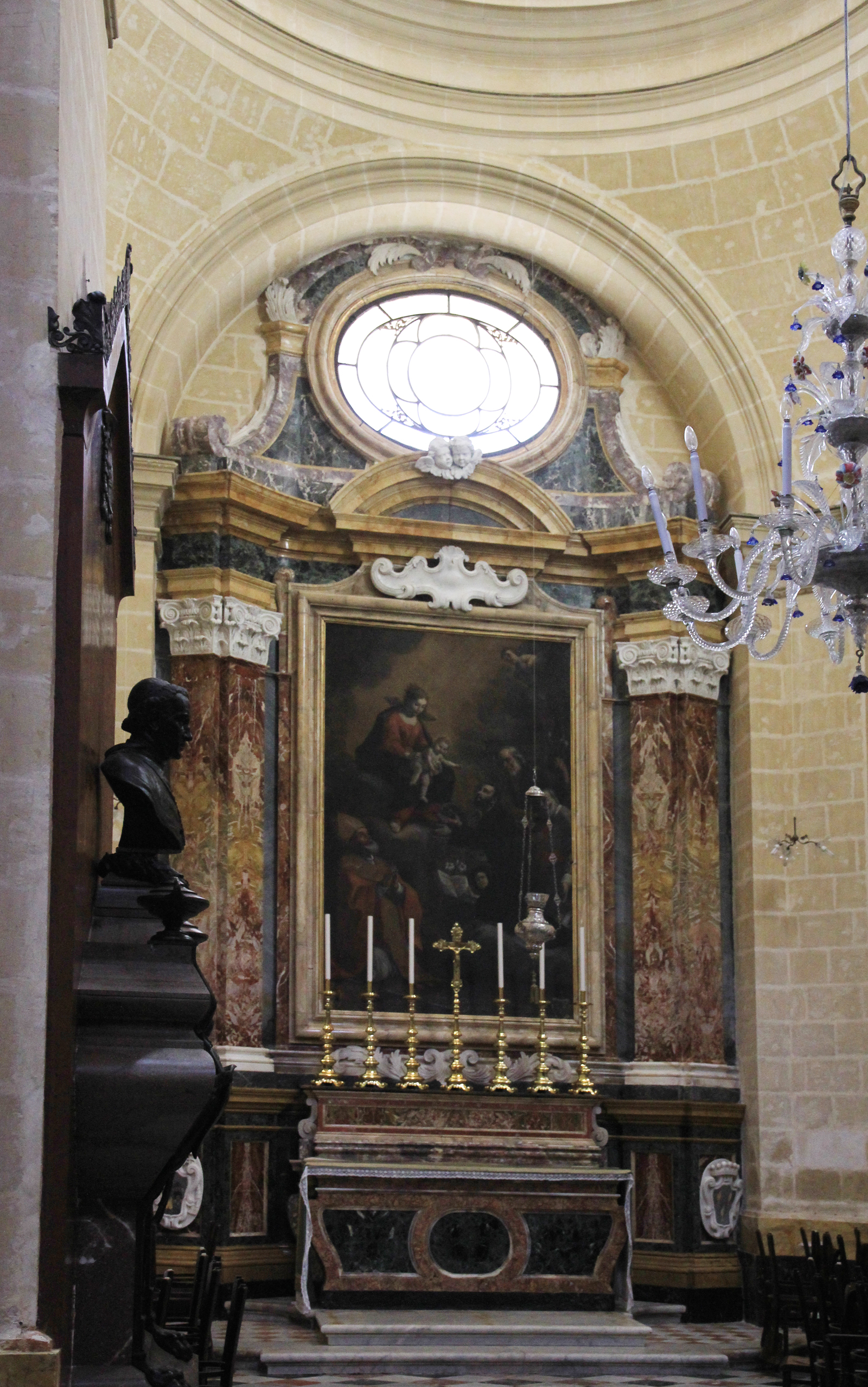 Interior of St. Paul's Cathedral in town Mdina, Malta